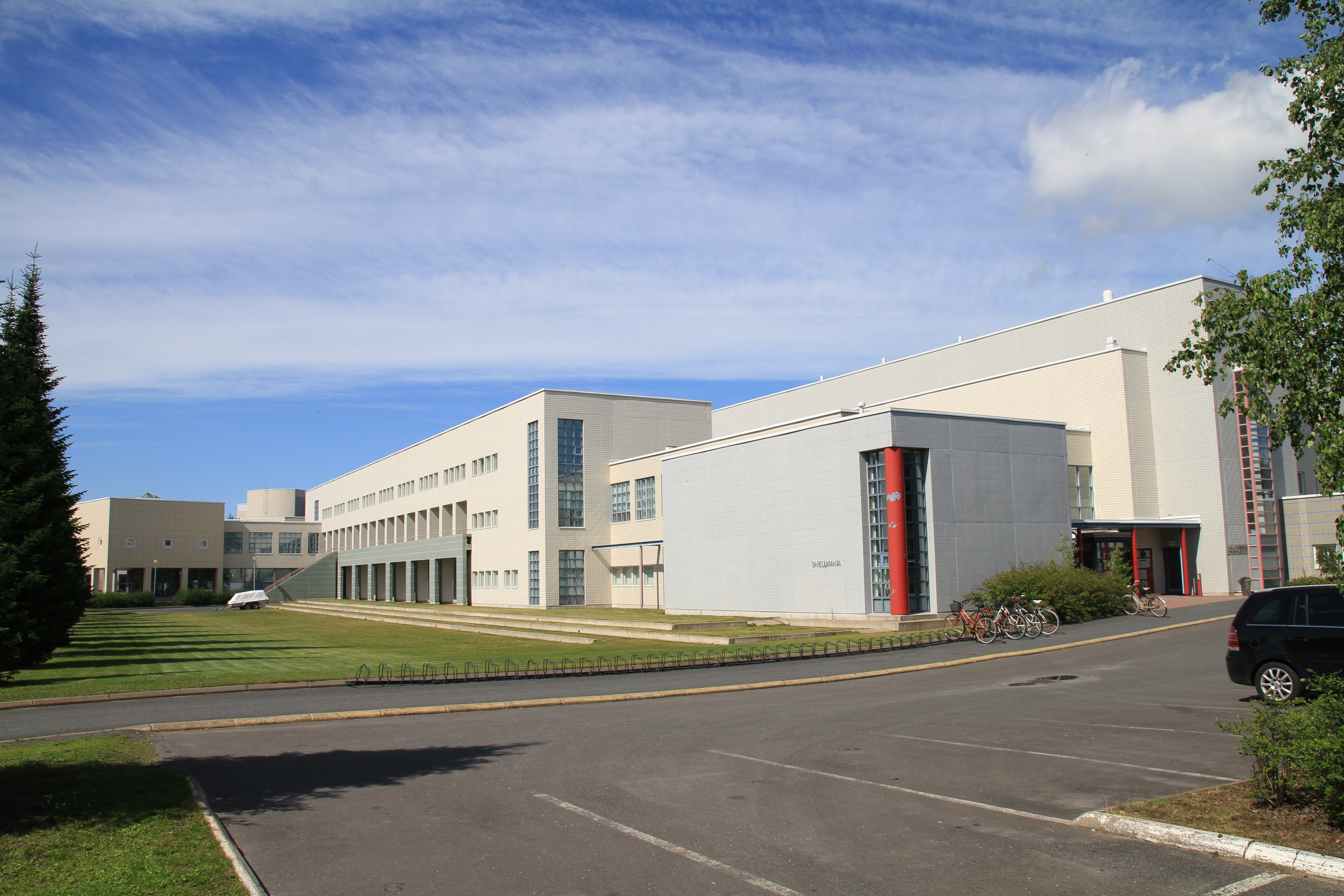 Snellmania University of Oulu